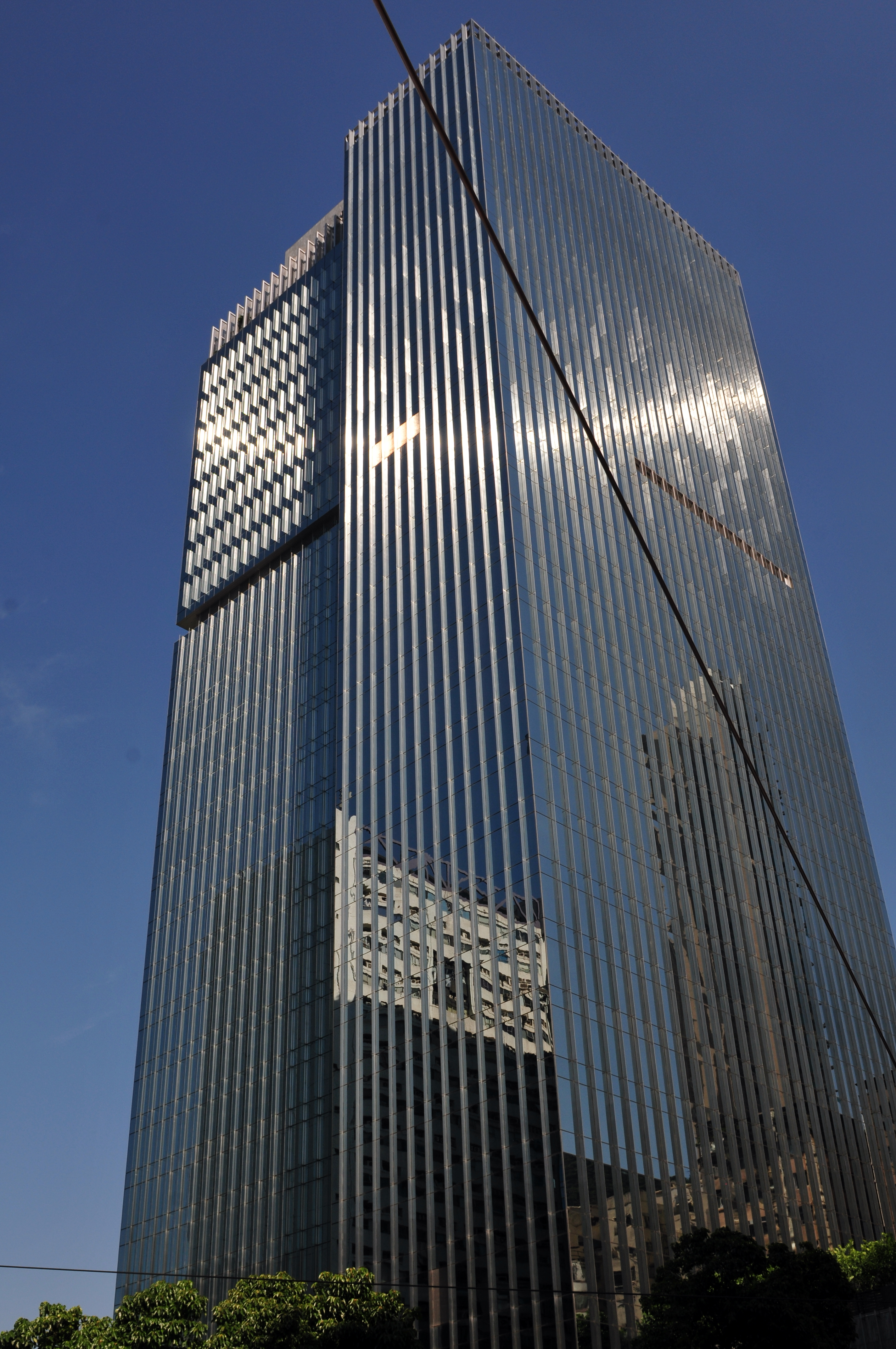 Kerry Centre, King's Rd. 679, Quarry Bay, Hong Kong